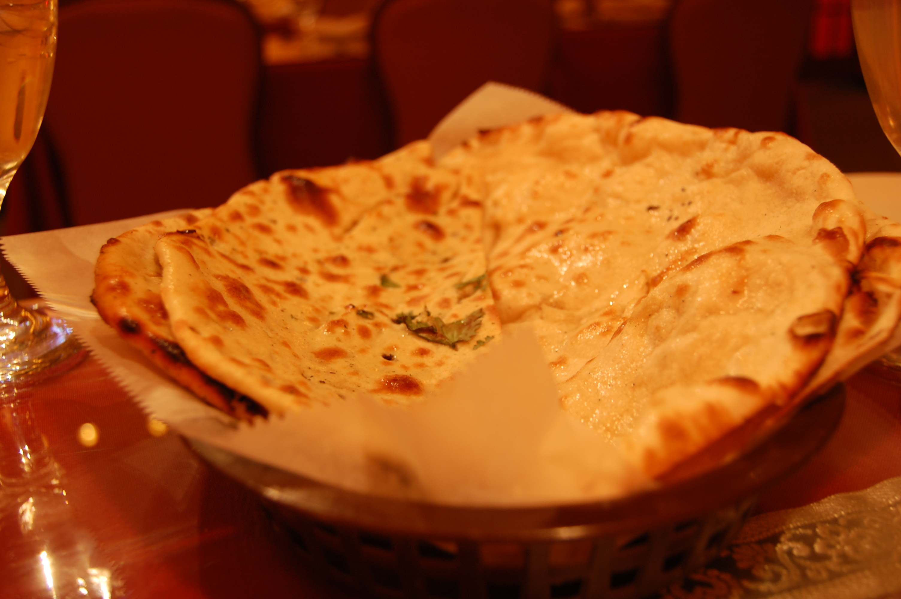 Mint paratha